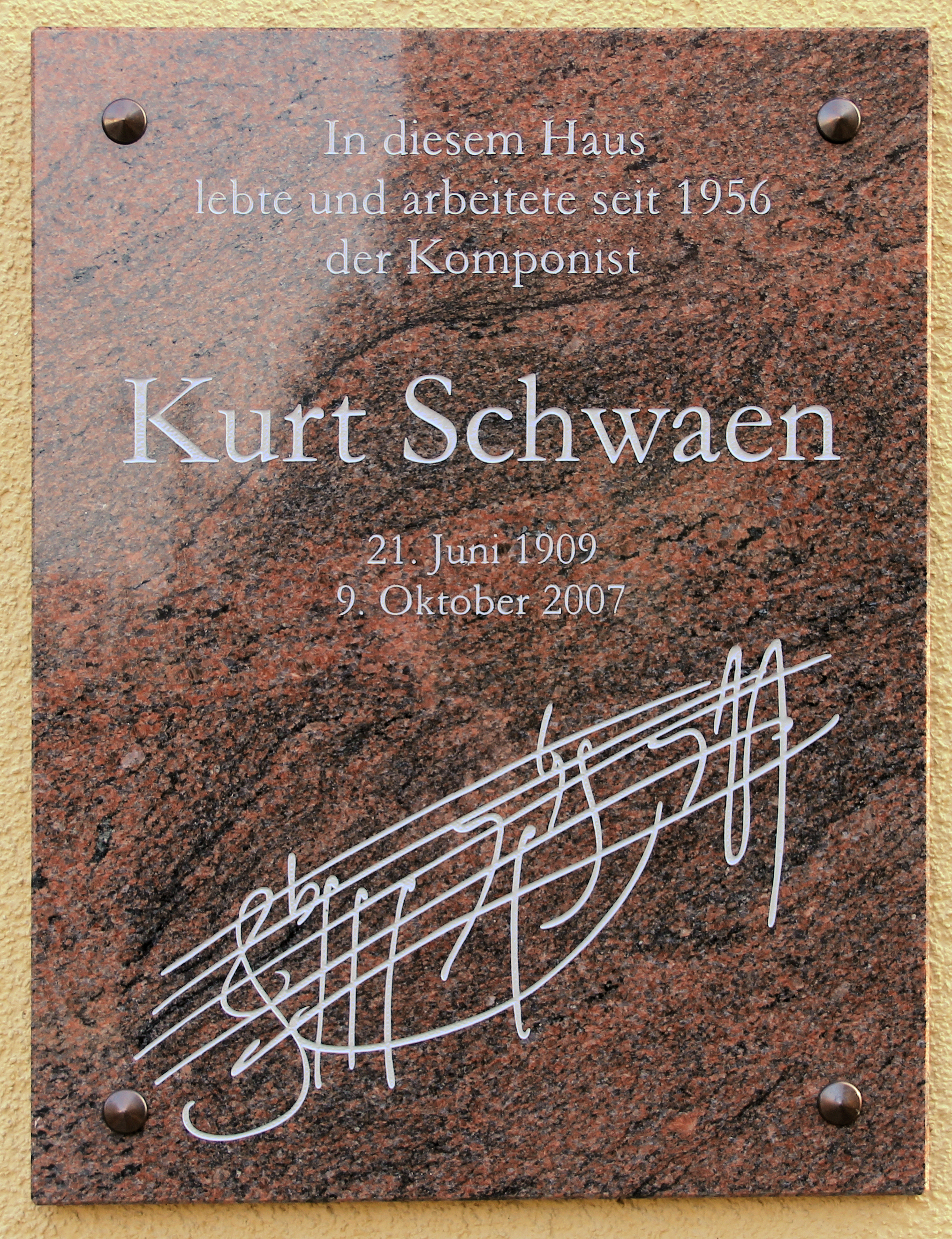 Memorial plaque, Kurt Schwaen, Wacholderheide 31, Berlin-Mahlsdorf, Germany